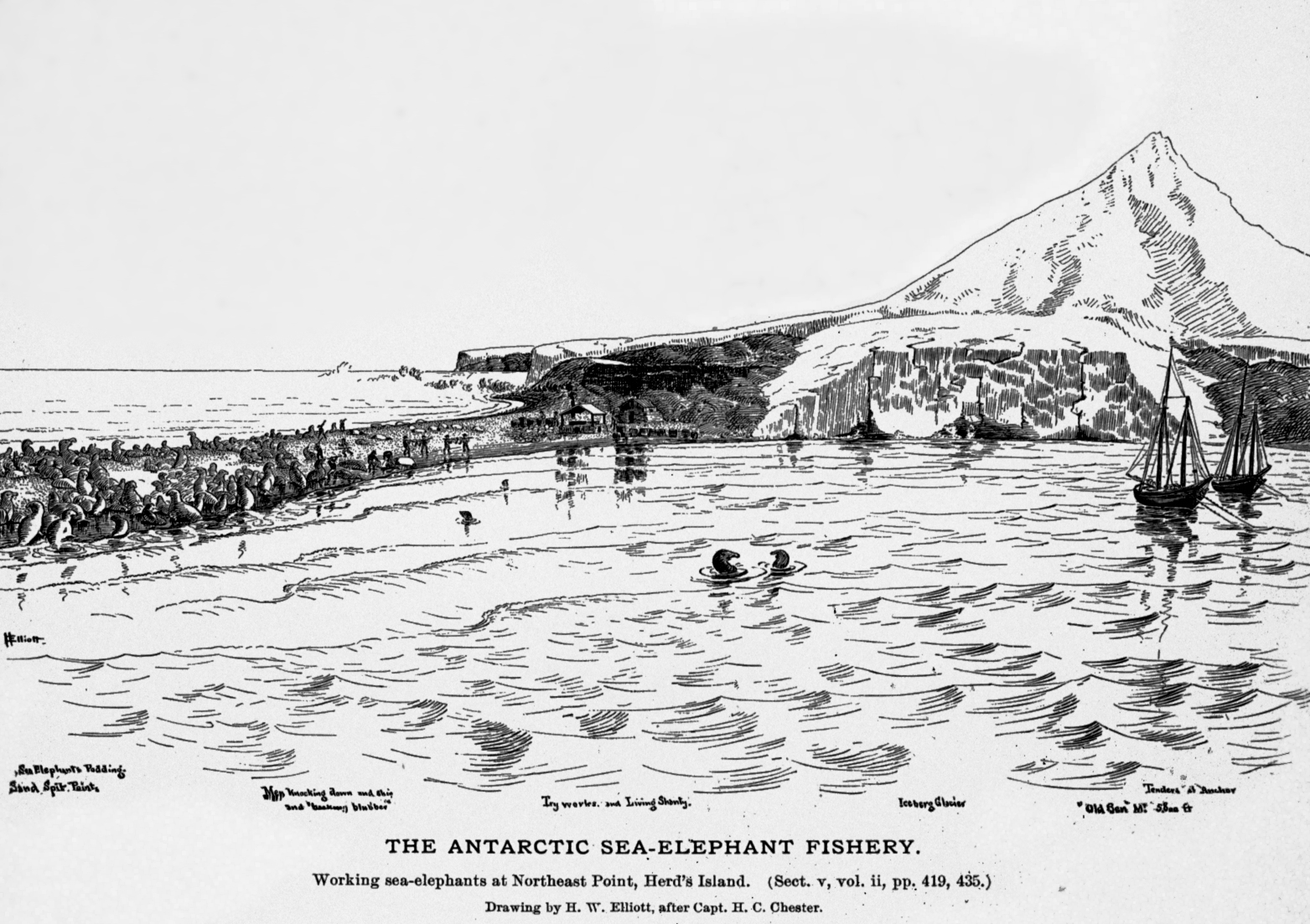 «Working sea-elephants at northeast point, Herd's Island» : scenery of southern elephant seal hunting on Heard Island during the 19th century.